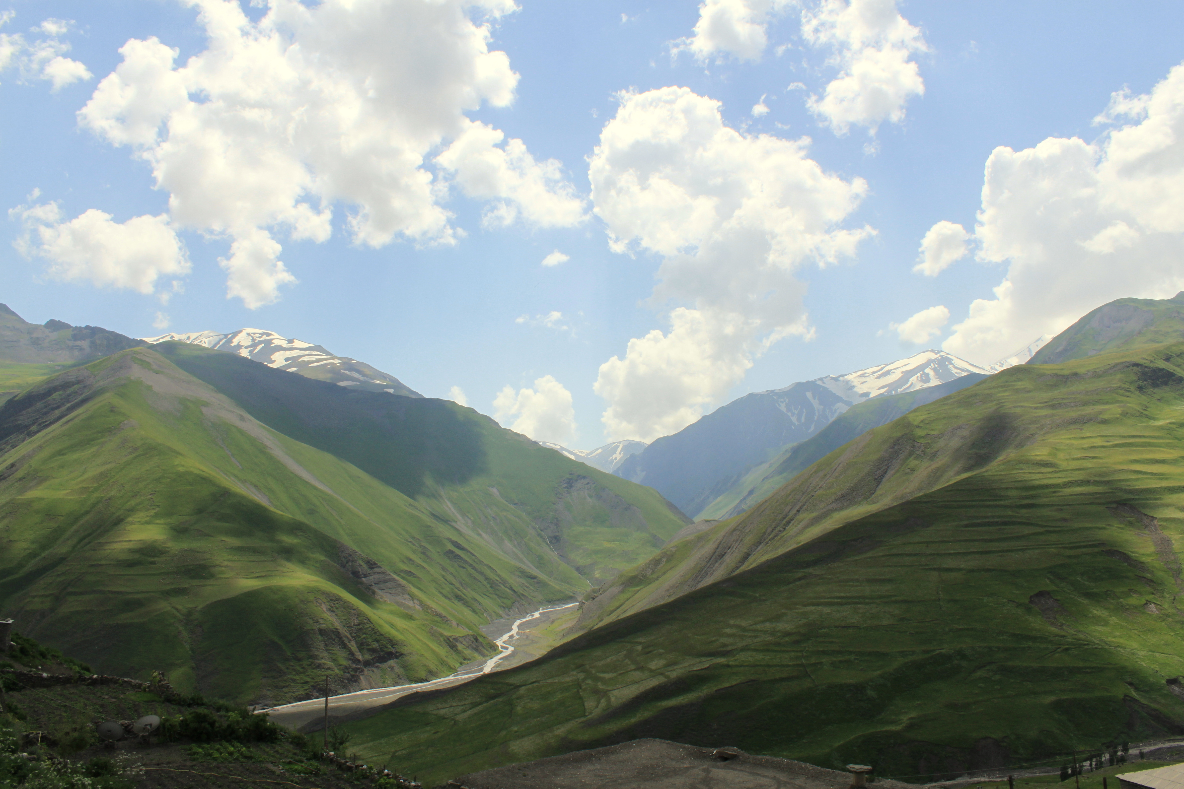 Quba area, Azerbaijan.